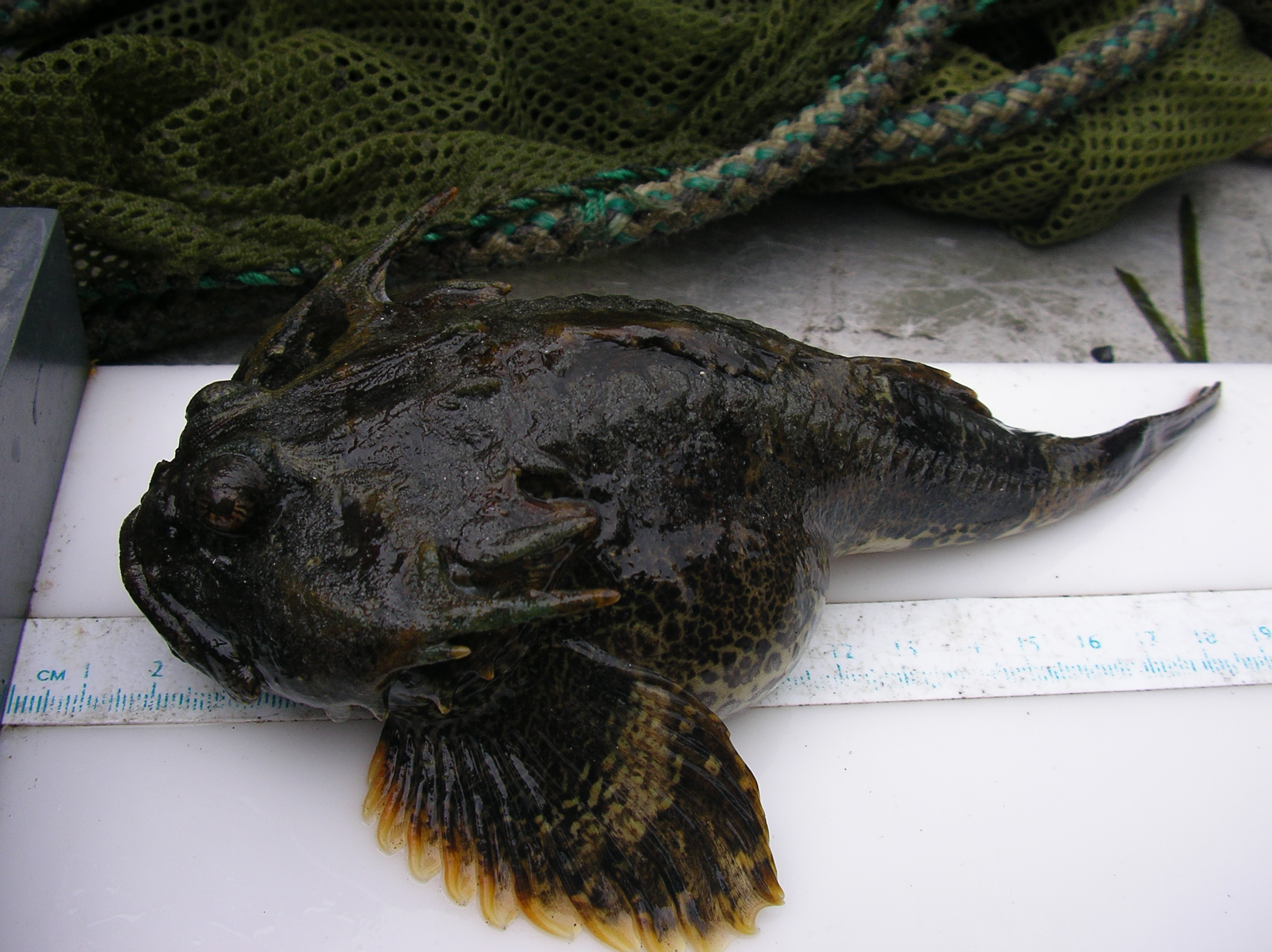 Juvenile of the species Enophrys bison (Buffalo sculpins).